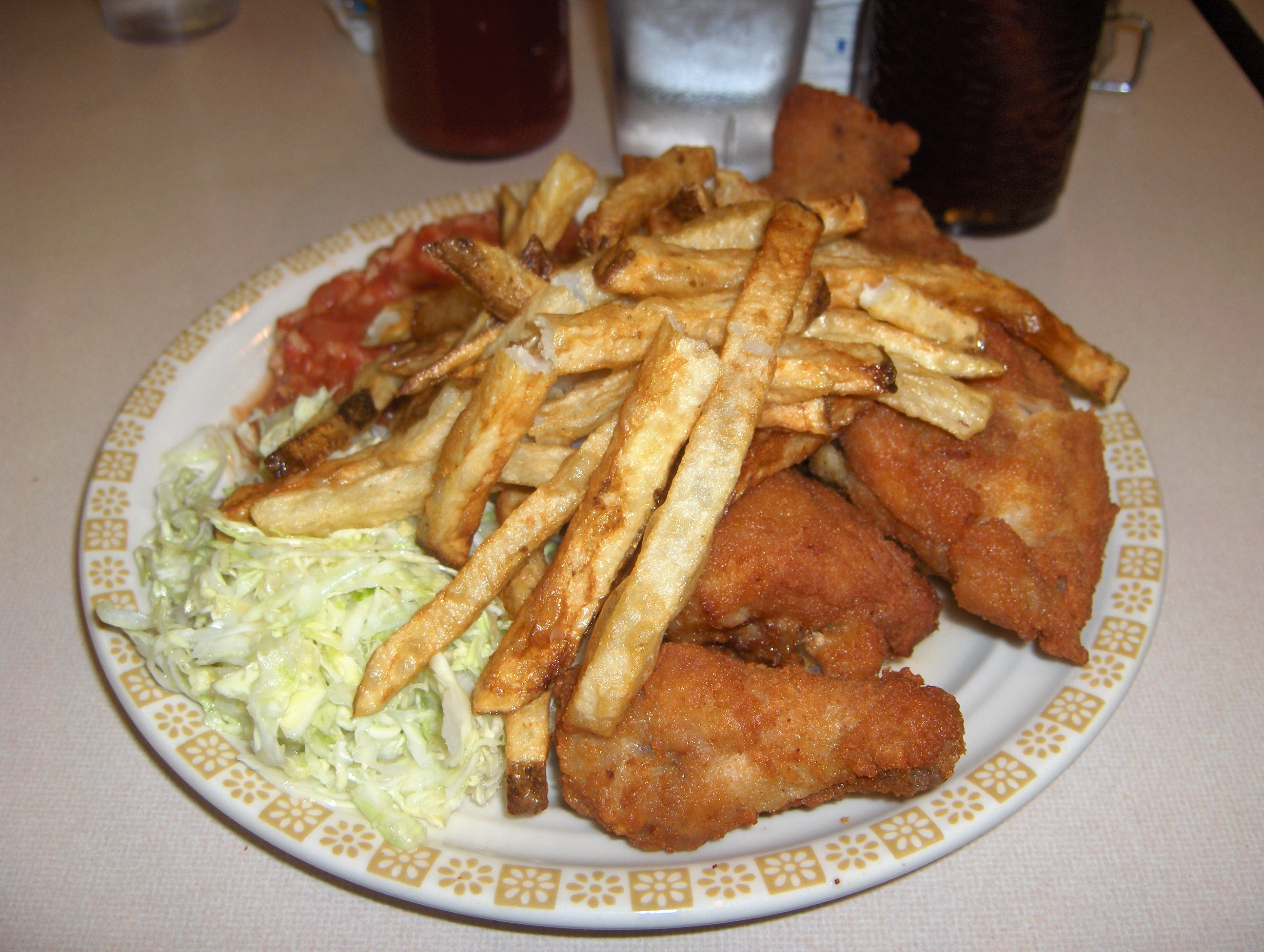 A traditional Barberton chicken dinner made by Milich's Village Inn, including four pieces of chicken, cole slaw, hot sauce and fries.